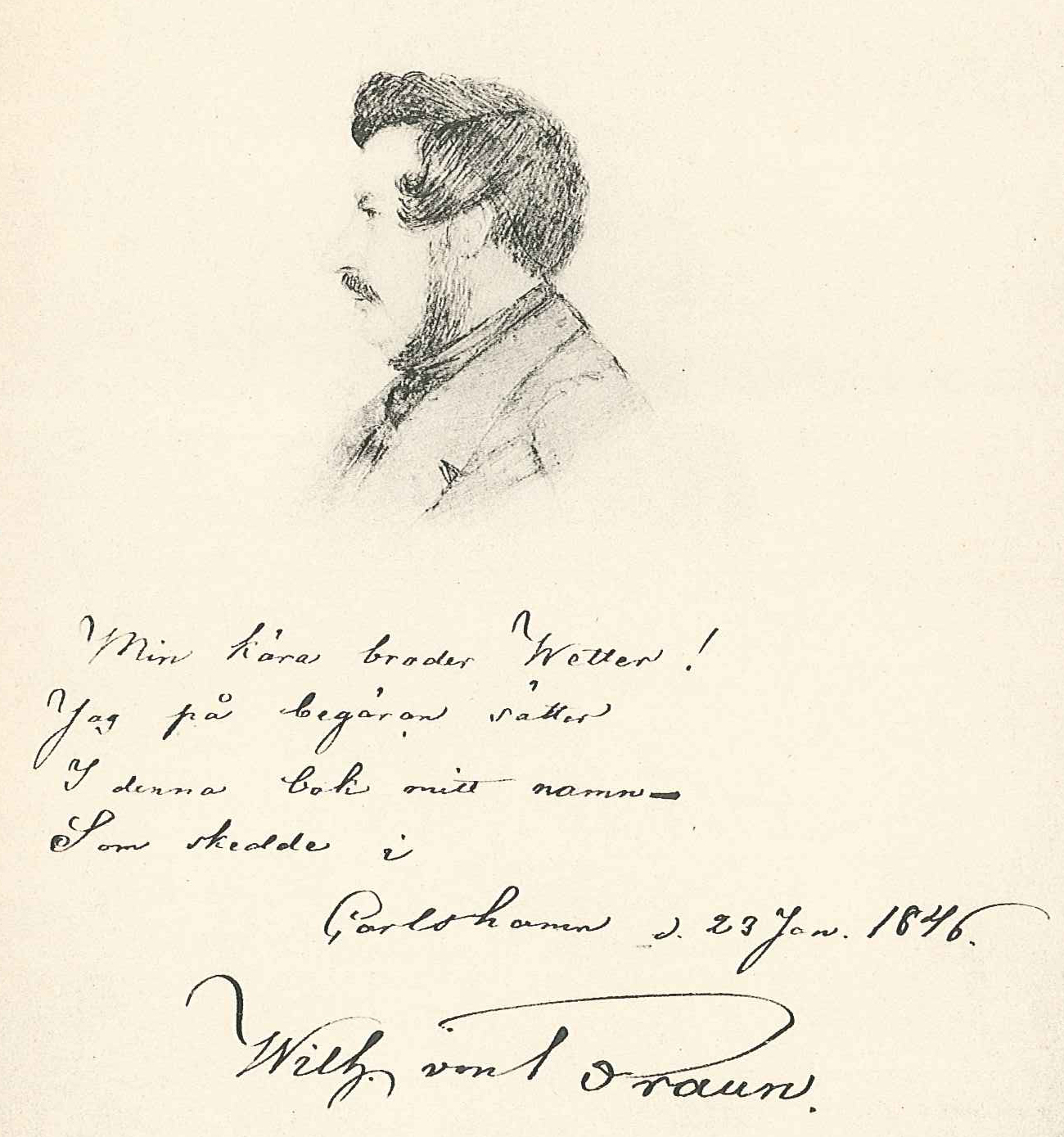 Wilhelm von Braun (1813-1860), Swedish author. Portrait with a dedication in verse to the artist, Carl Wetter.